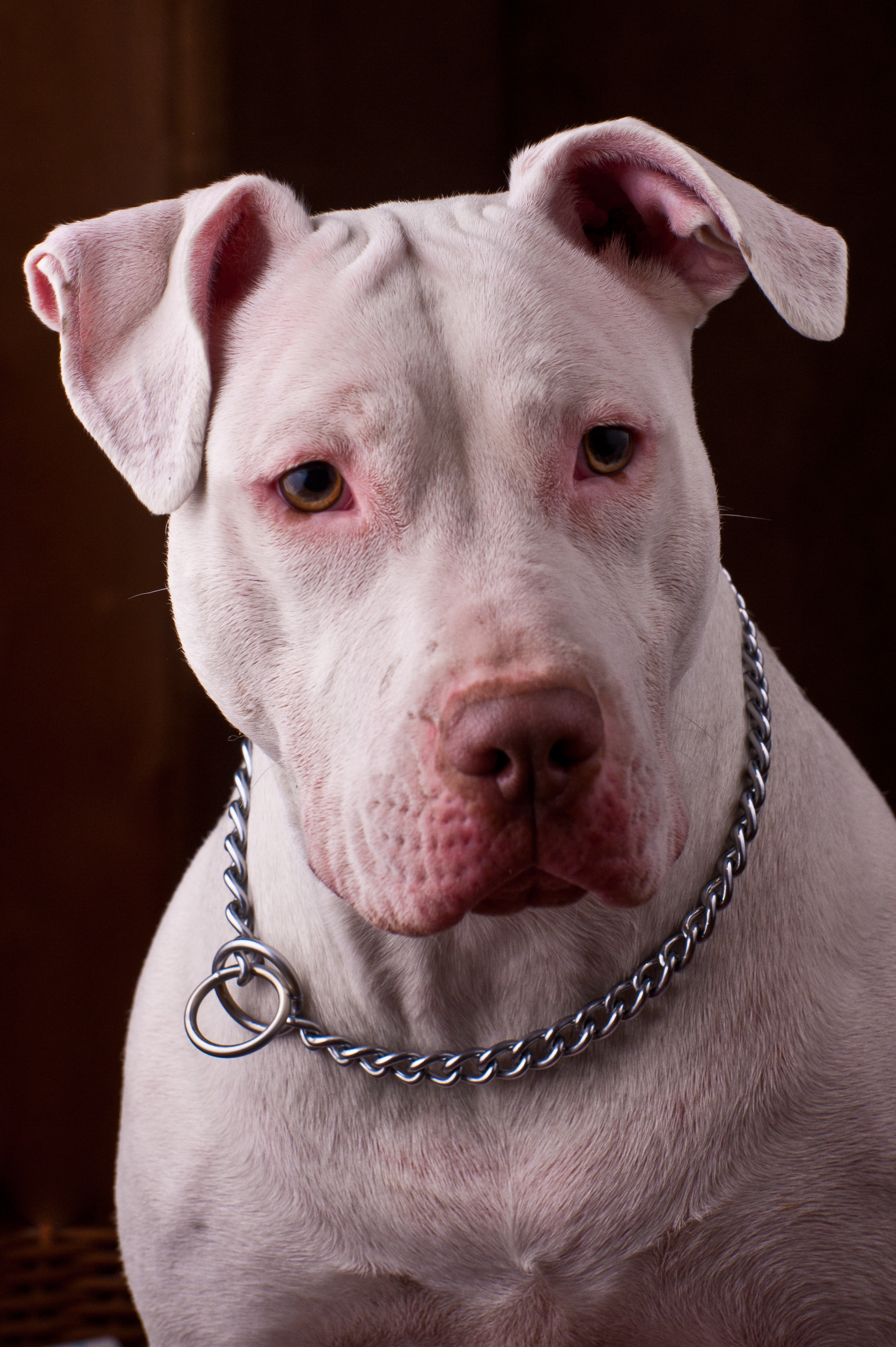 Portrait of a female white American Pit Bull Terrier named Stella.